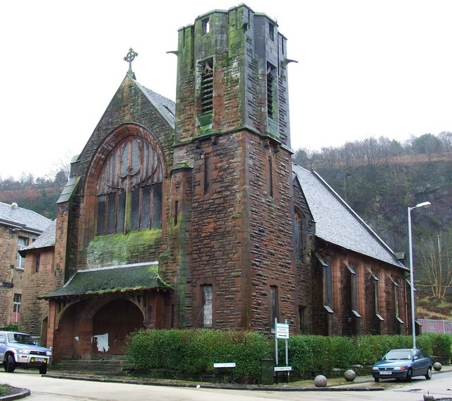 Former Clune park Church of Scotland Designed by Boston, Menzies and Morton, built in 1905. Last used as a church in 1996. There are plans to convert the building to flats. Note the Art Nouveau window 1194783.